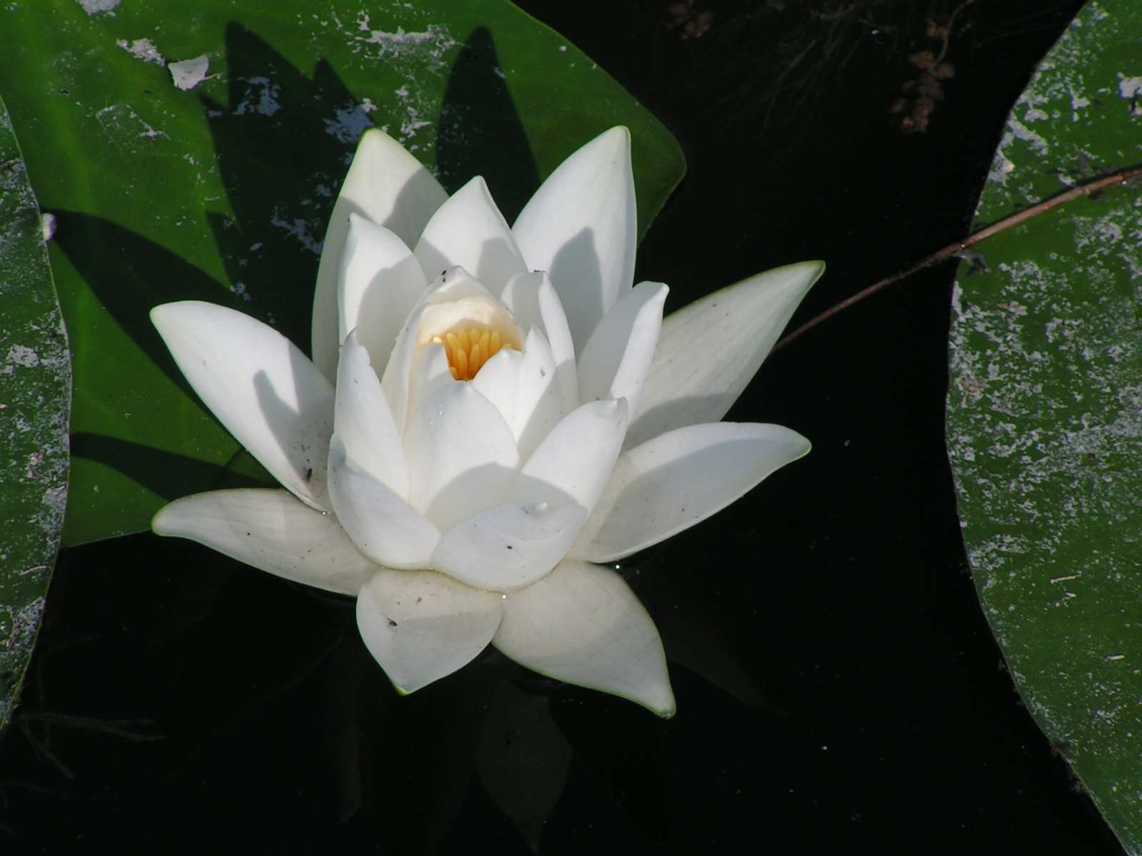 A beautiful romanian European White Waterlily (Nymphaea alba) in Neptun, Romania, 2005. --CrimsonC 21:33, 10 July 2006 (UTC)